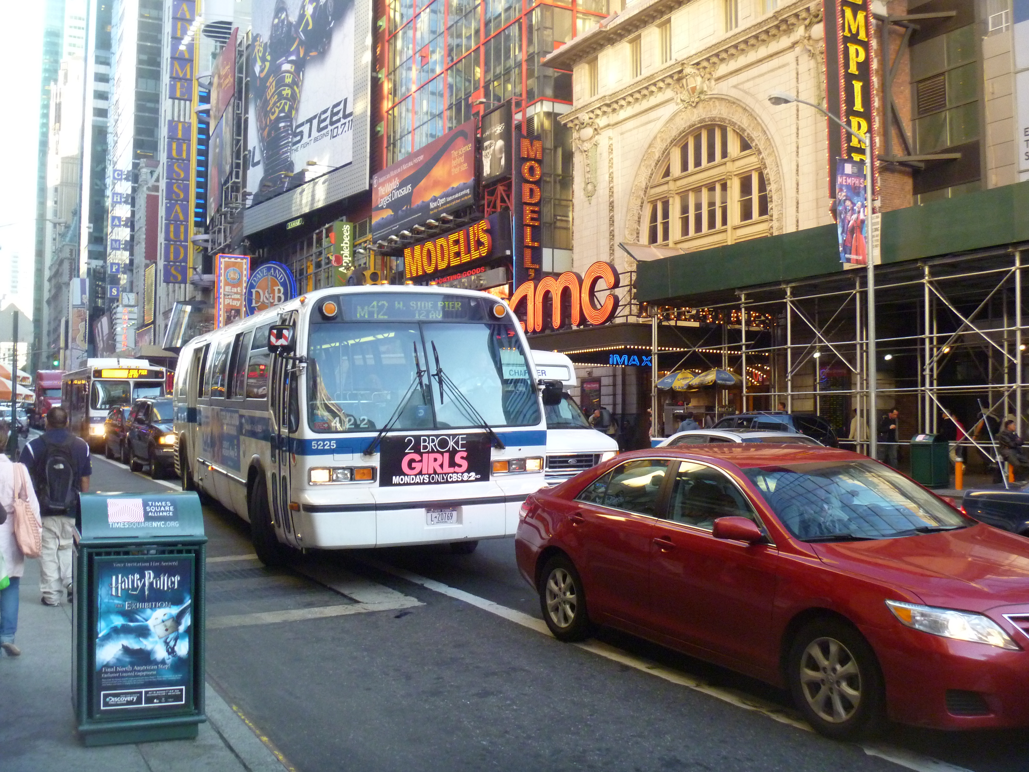 An MTA New York City Bus is on the M42 in downtown Manhattan.